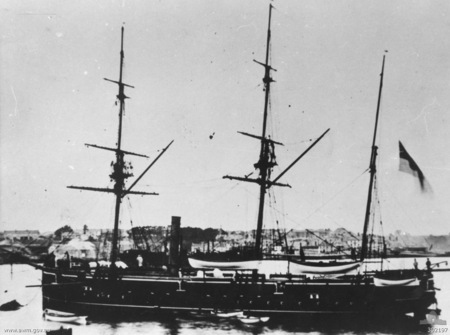 c.1886. Port side view of the screw sloop HMS Flying Fish after conversion to a survey vessel. Note the extra boats carried for survey duties.